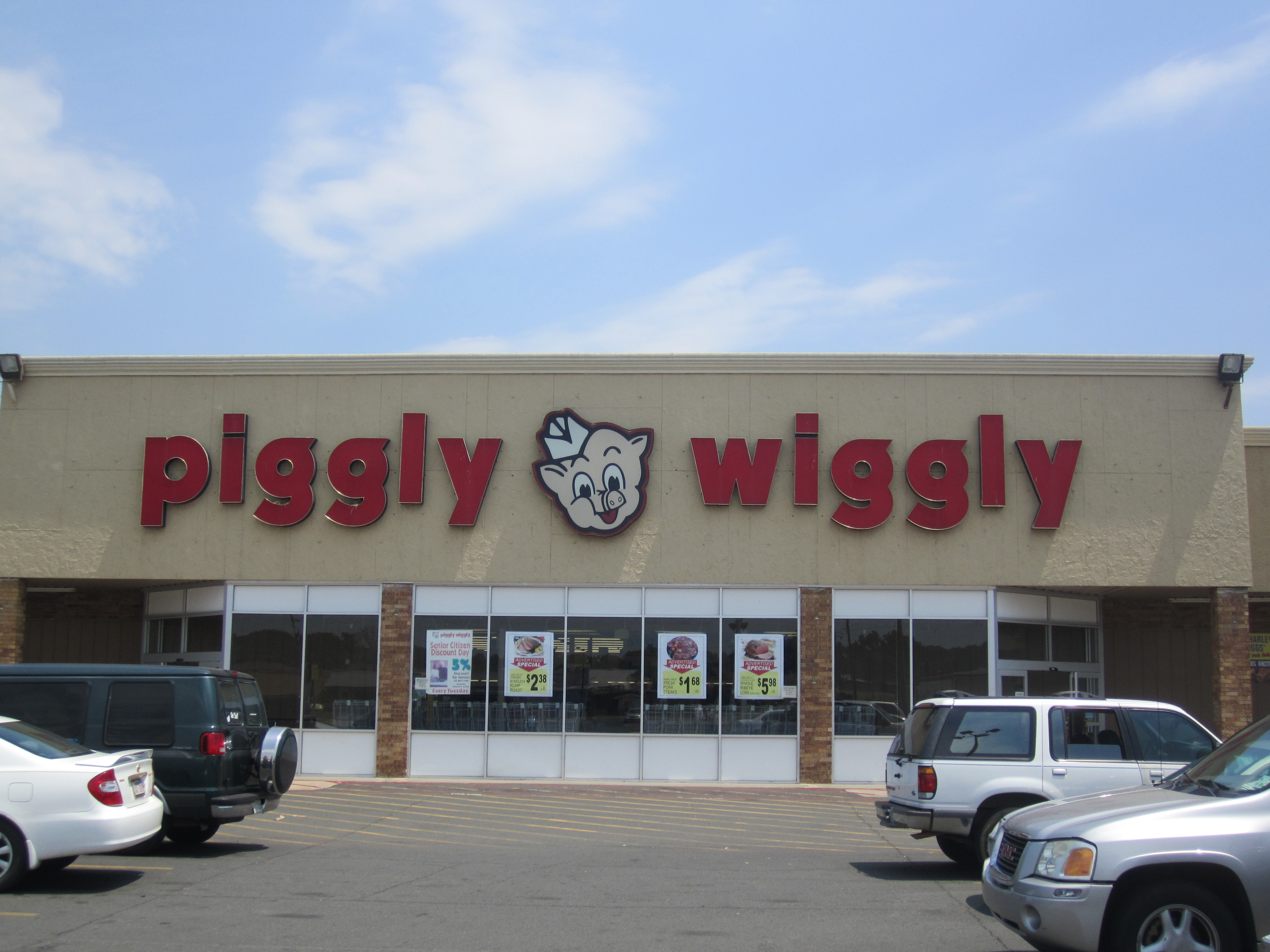 I took photo of Piggly Wiggly in Springhill, LA, with Canon camera.